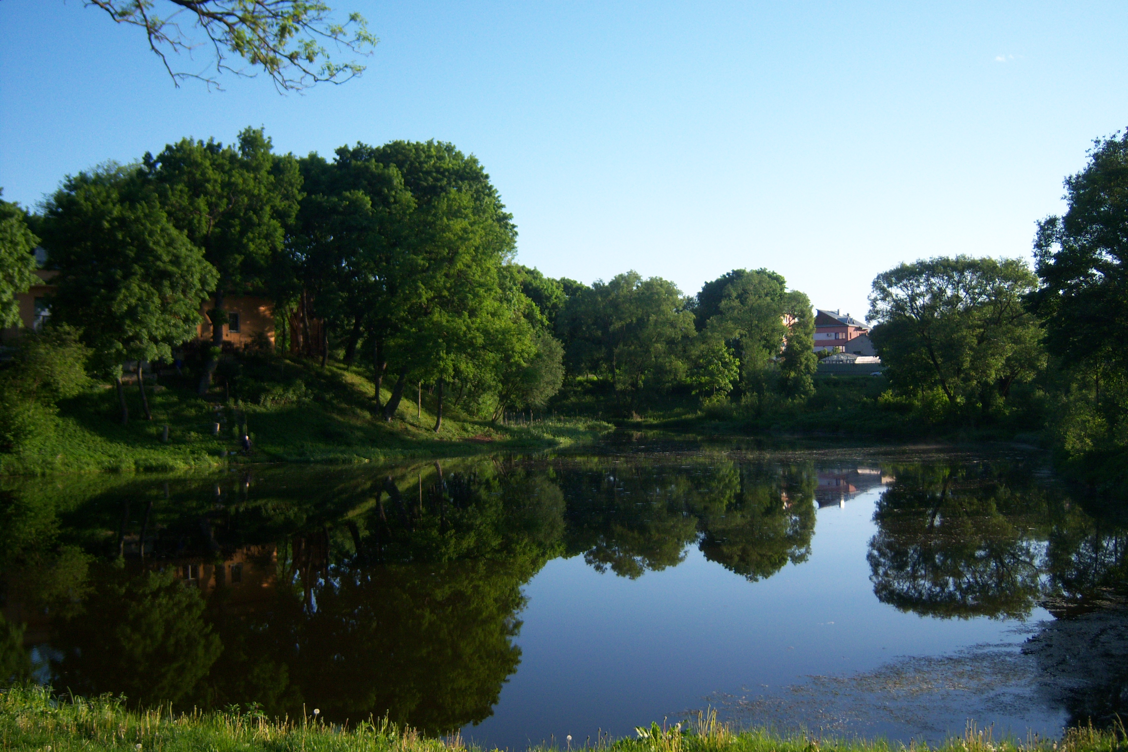 Pond by former manor in Linkuva, Kaunas. Lithuania